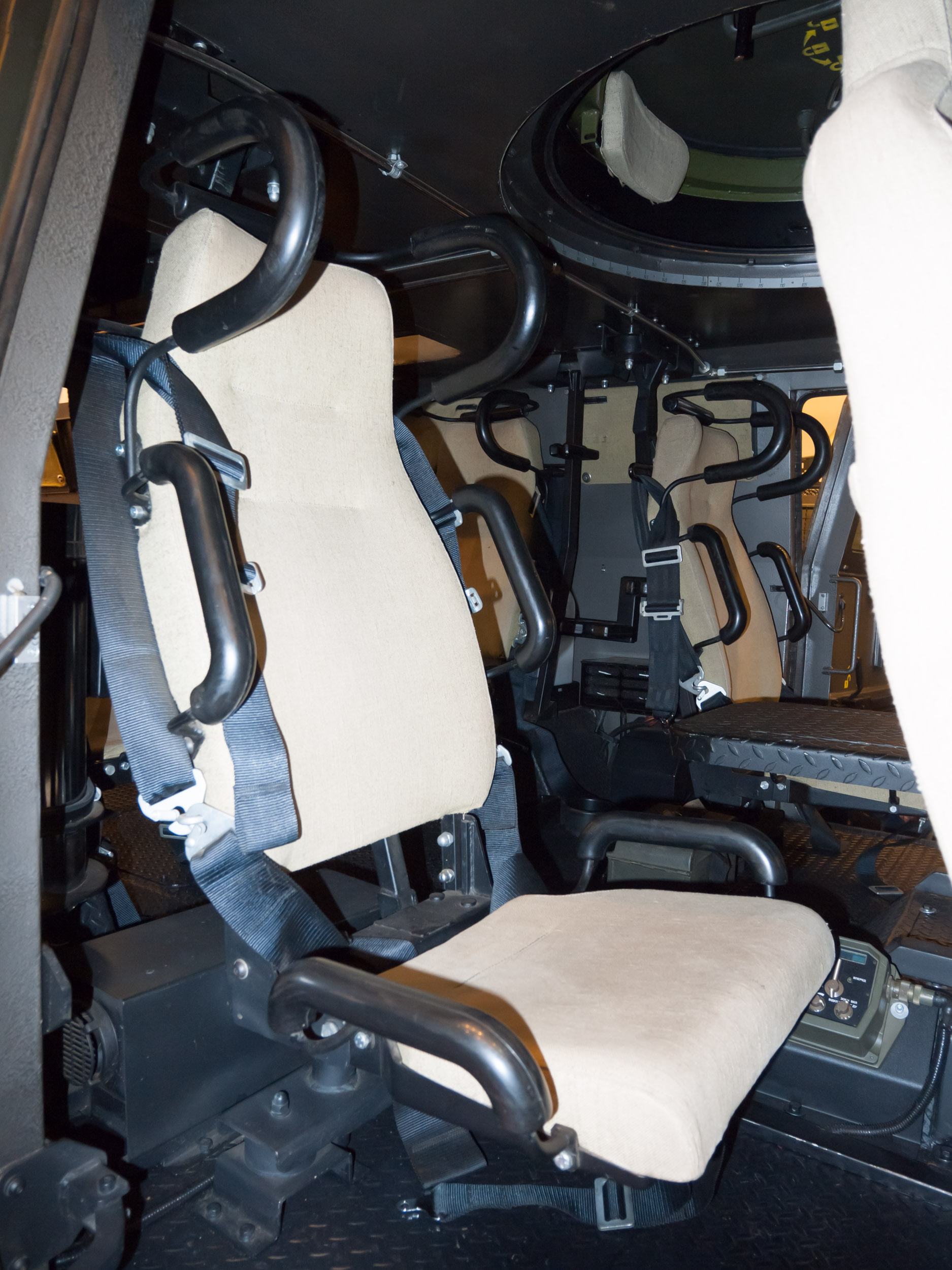 Kozak-2M.1 vehicle by Practika (Ukraine) at 'Zbroya ta Bezpeka' military fair, Kyiv, Ukraine, 2018